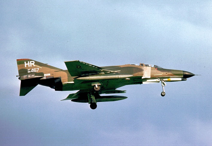 313th Tactical Fighter Squadron - McDonnell Douglas F-4E-40-MC Phantom - 68-0467, about 1978